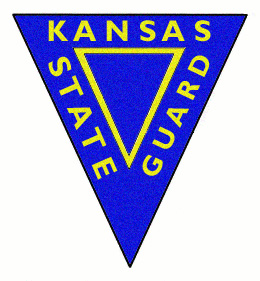 Kansas State Guard insignia, worn on patch.